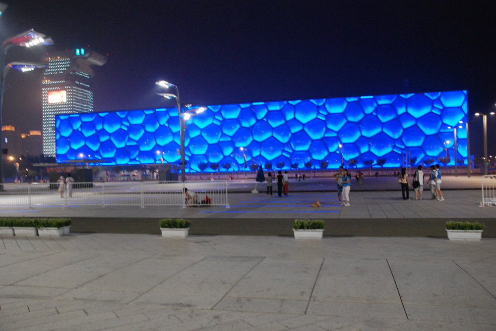 Picture of the watercube by night during the Beijin Olympic games, august 21st